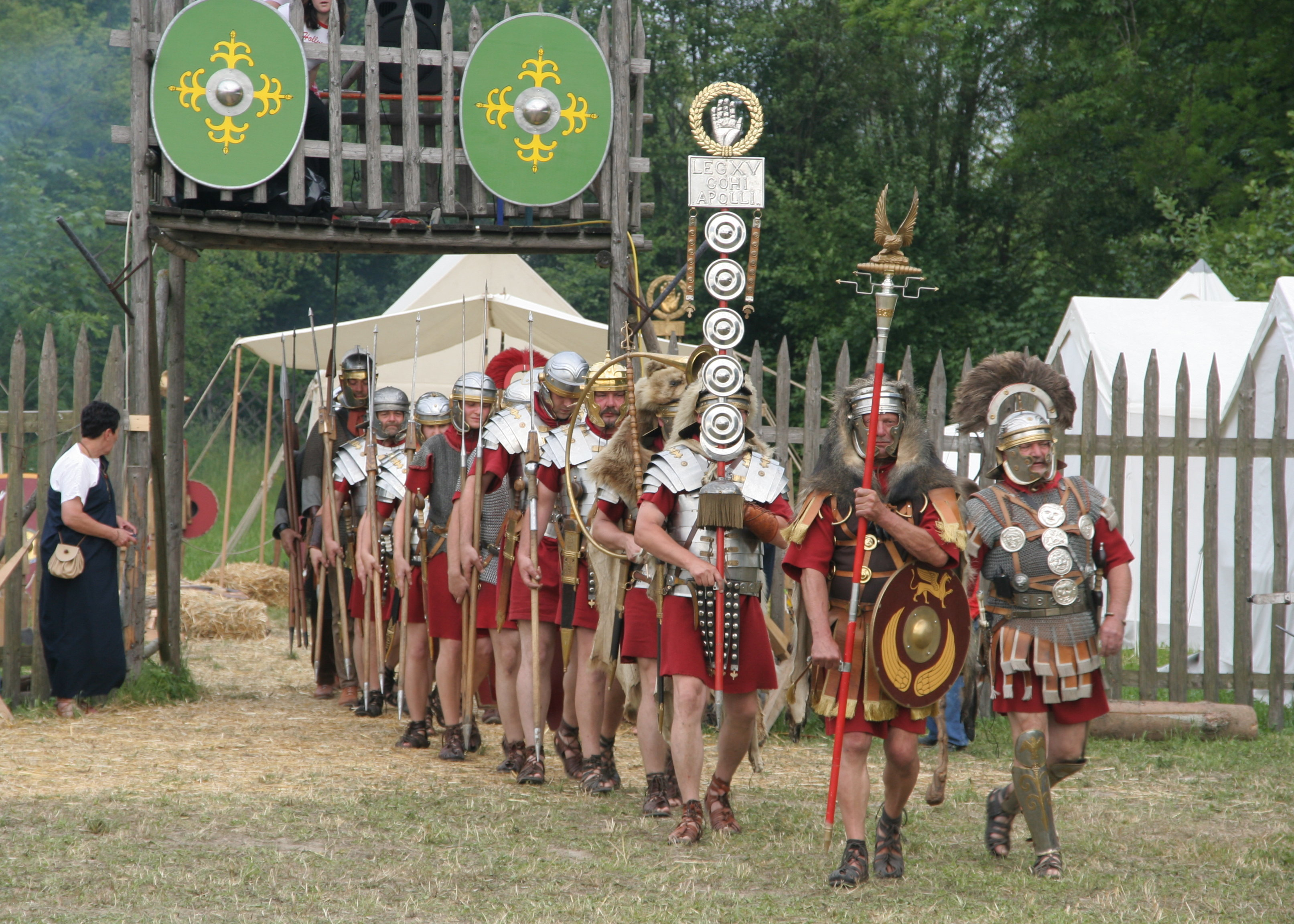 Roman soldiers 70 a.C. with centurio, aquilifer, signifer, cornicen The background should not show a real roman fort Photographed by myself during a show of Legio XV from Pram, Austria